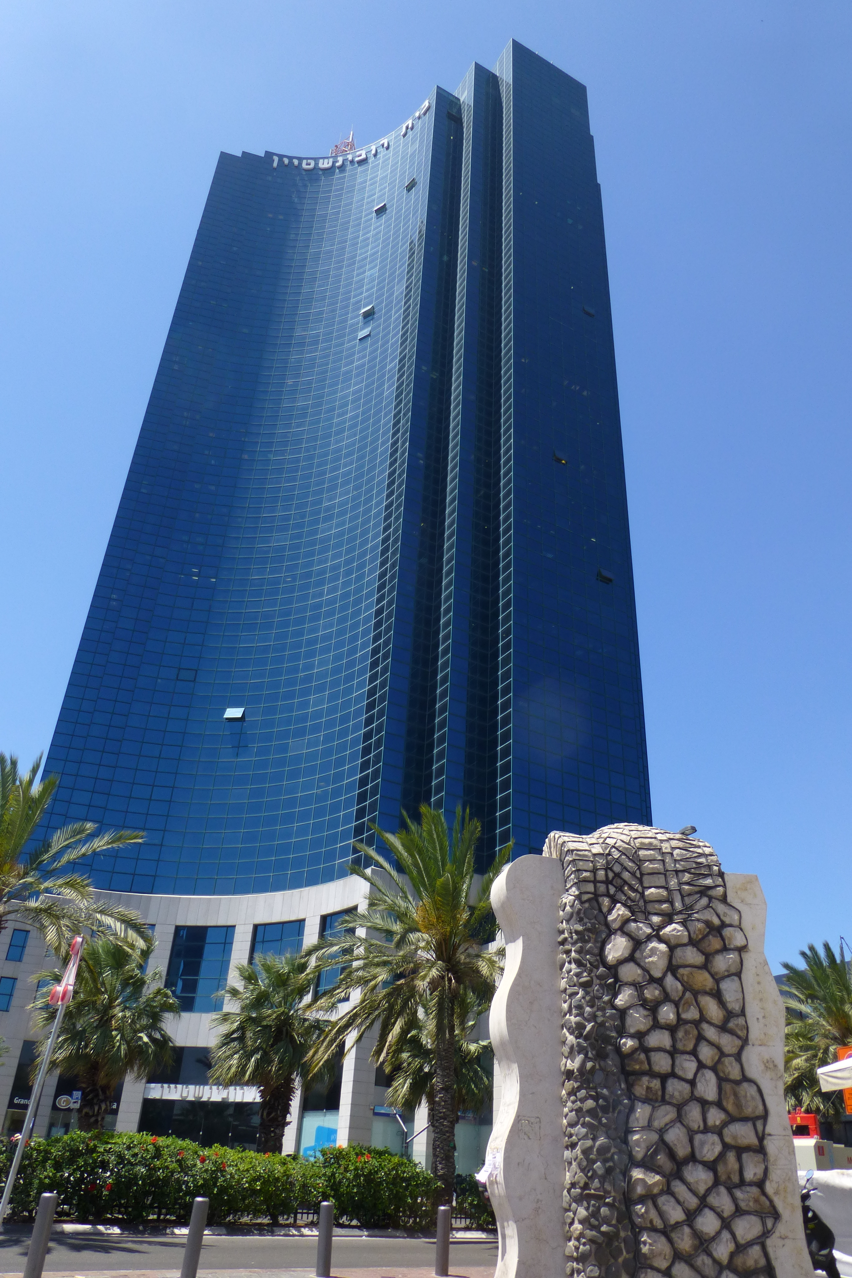 Begin Road, Tel Aviv-Yafo